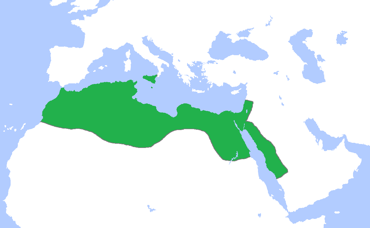 Locator map of the Fatimid Caliphate, c. 969. (Partially based on map: [1])